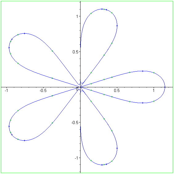 Fifth Erdős polynomial lemniscate of degree ten and genus six.